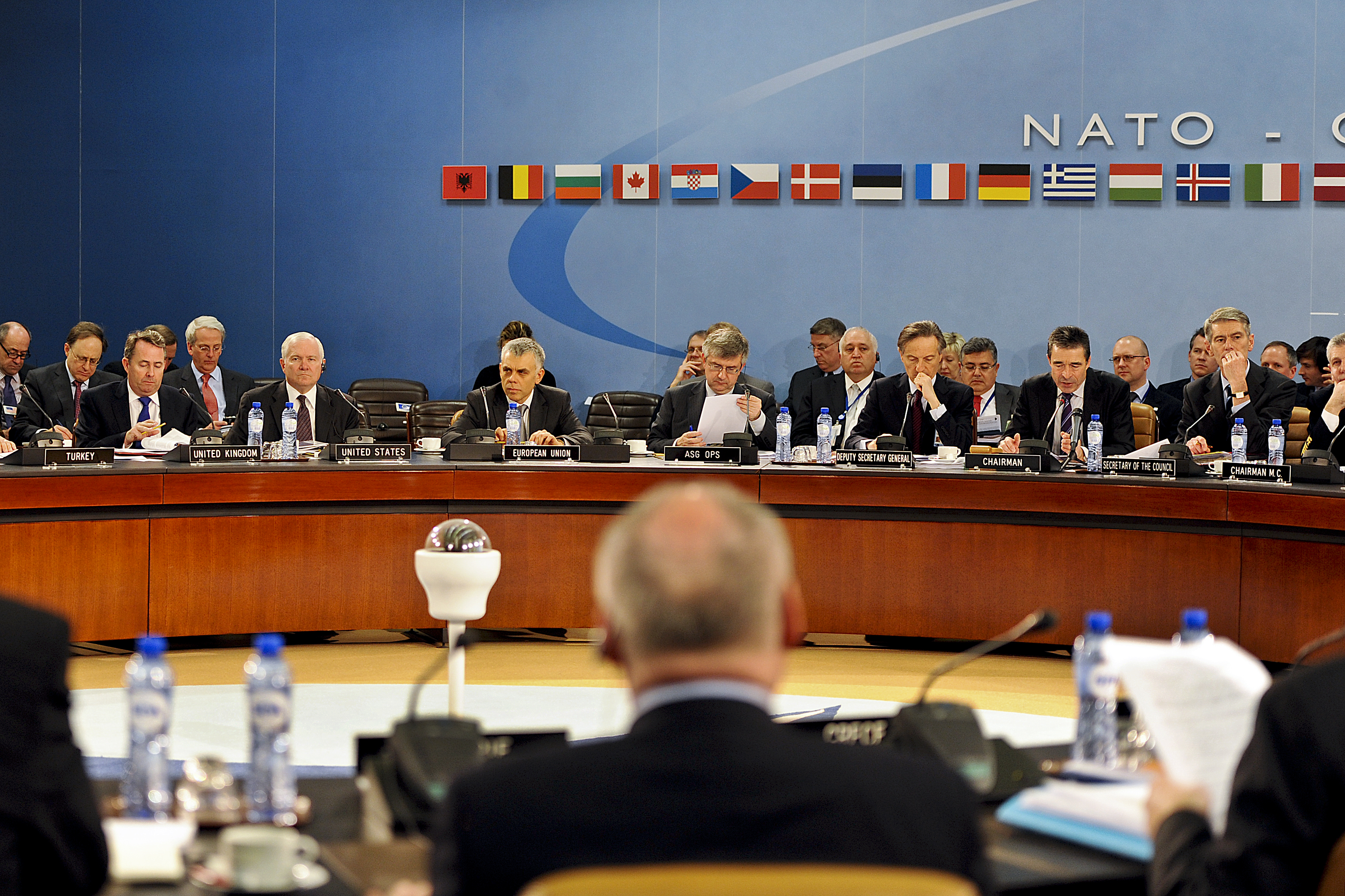 The first meeting for NATO Defense ministers at NATO headquarters in Brussels, Belgium, March 10, 2011.